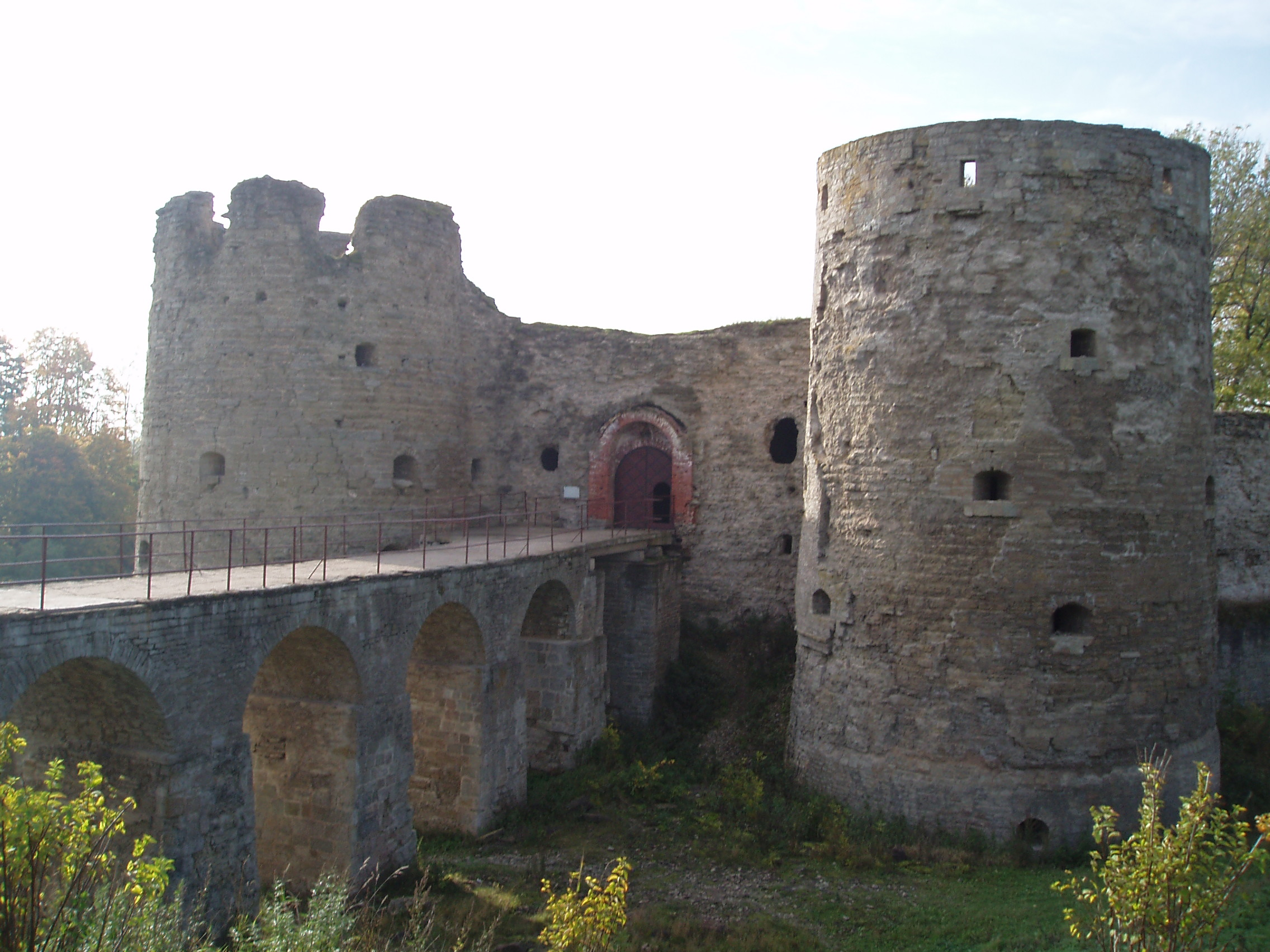 Fortress in Koporye, Leningrad Oblast, Russia.